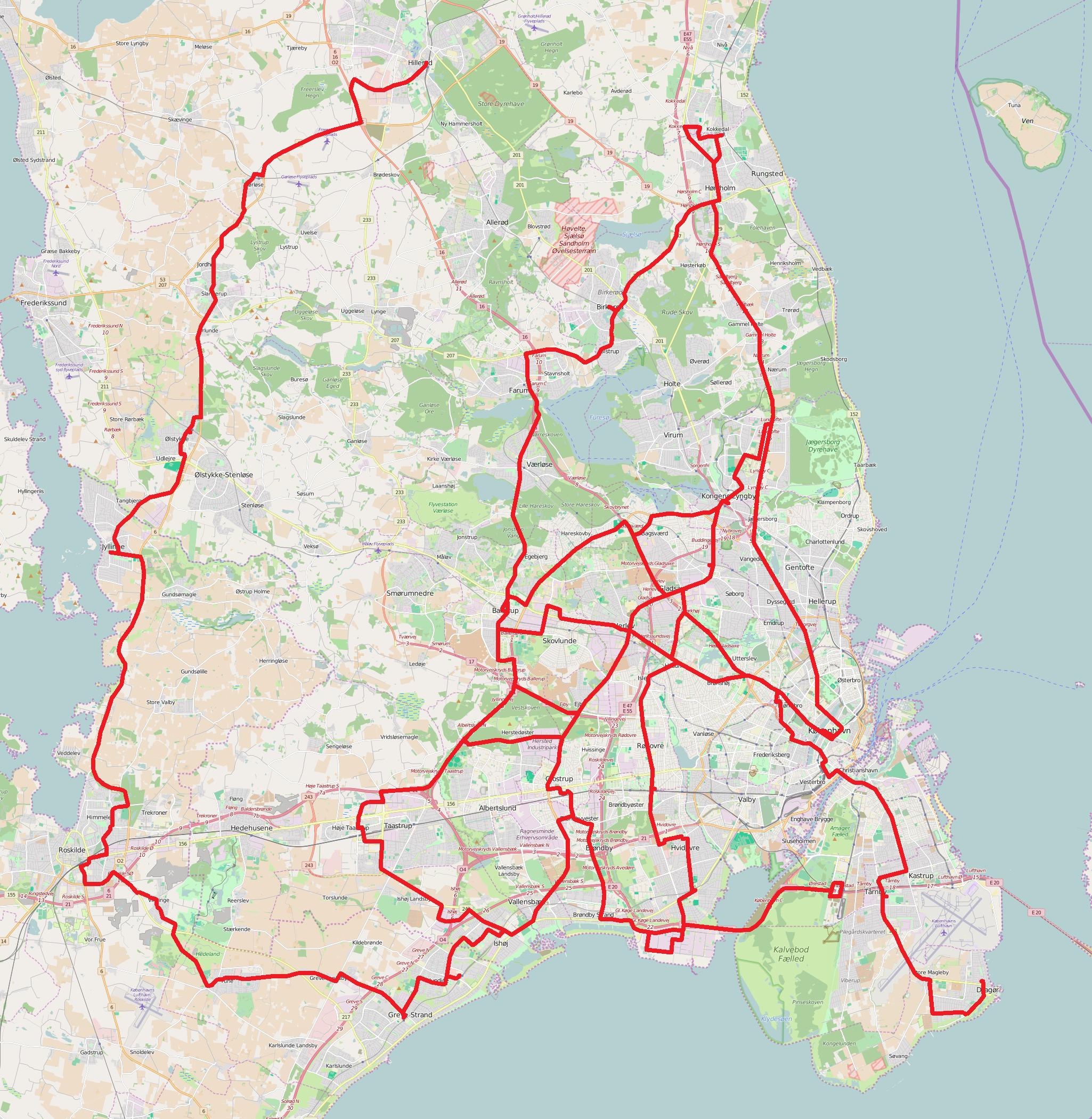 Map of the Copenhagen S-bus network as of 13 October 2019. This map may be incomplete, and may contain errors. Don't rely solely on it for navigation.